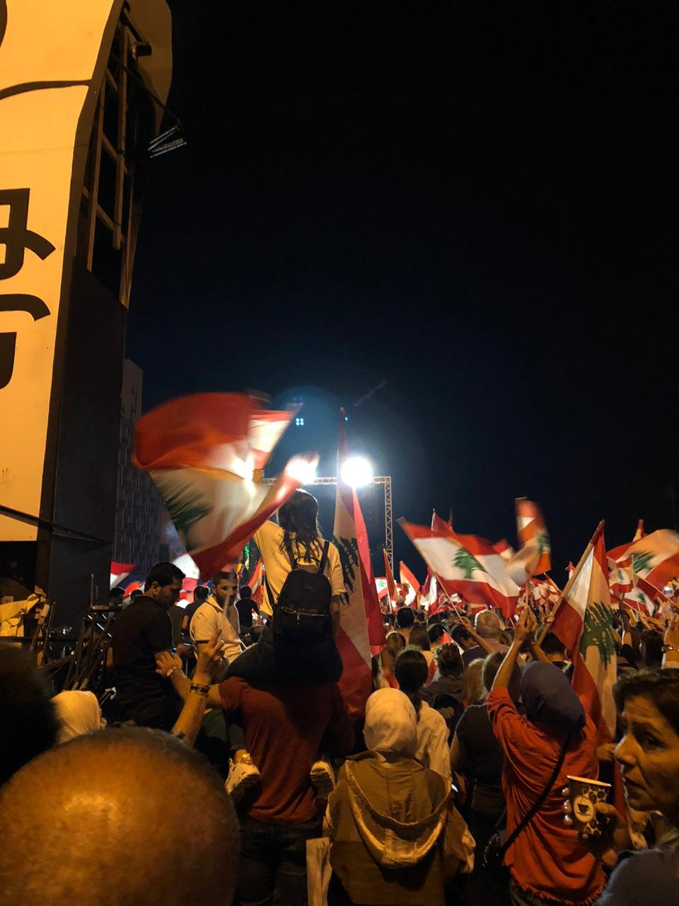 Beirut, Photographed by Jessica Wahab